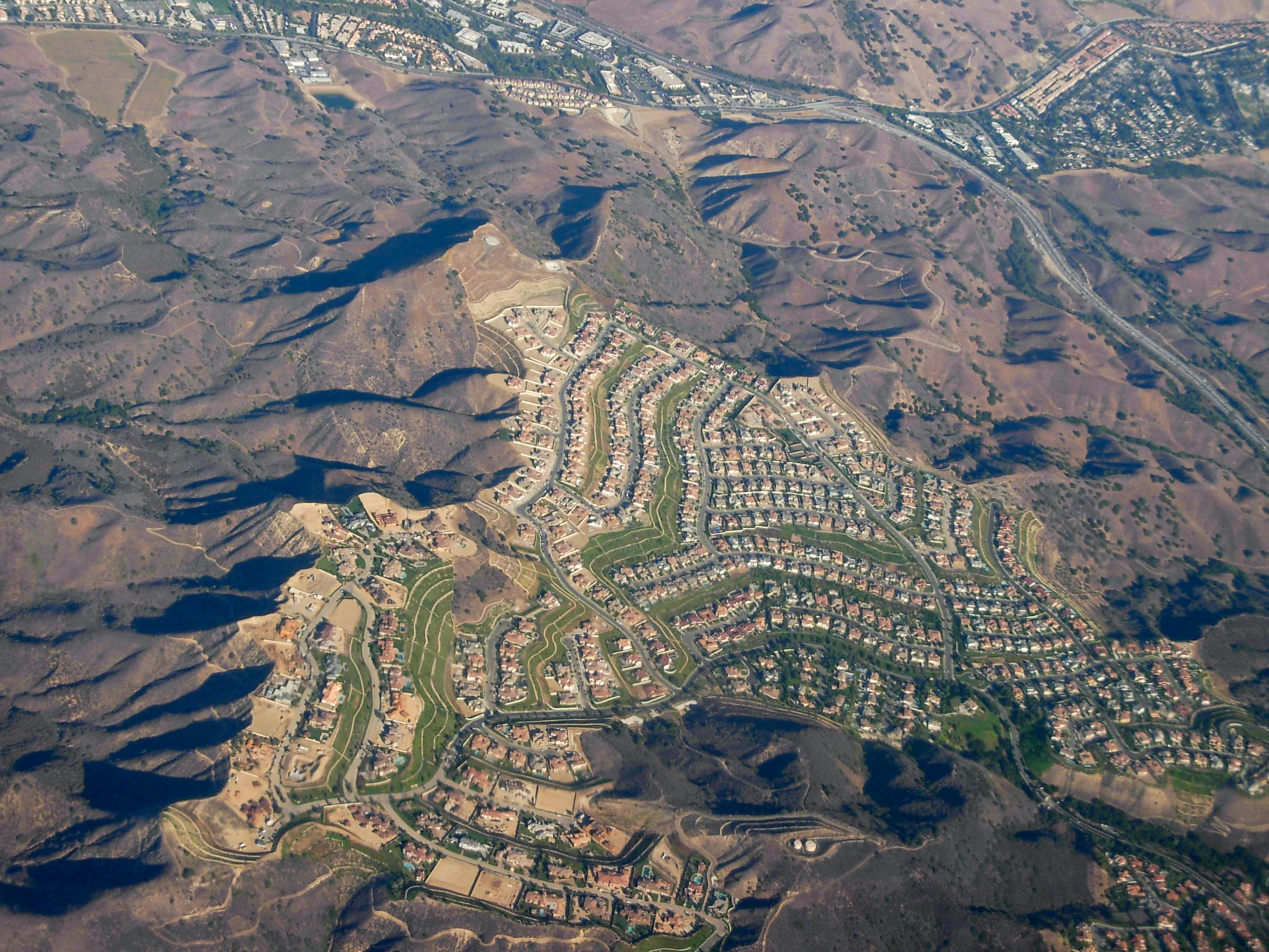 Aerial view of Calabasas, California...and what looks like the intersection of Las Virgenes and the 101, facing northwest.